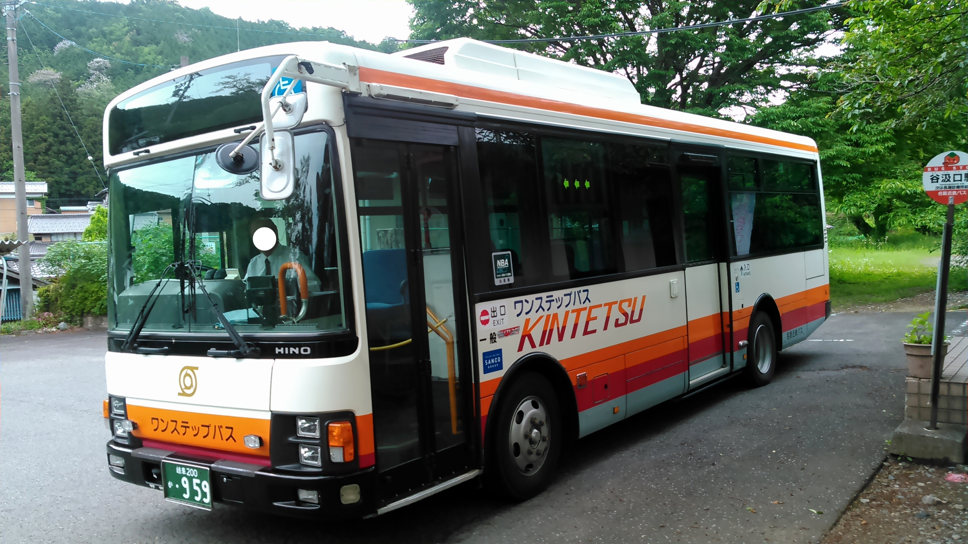 The bus stop in front of Tanigumiguchi Station in Gifu Prefecture, Japan